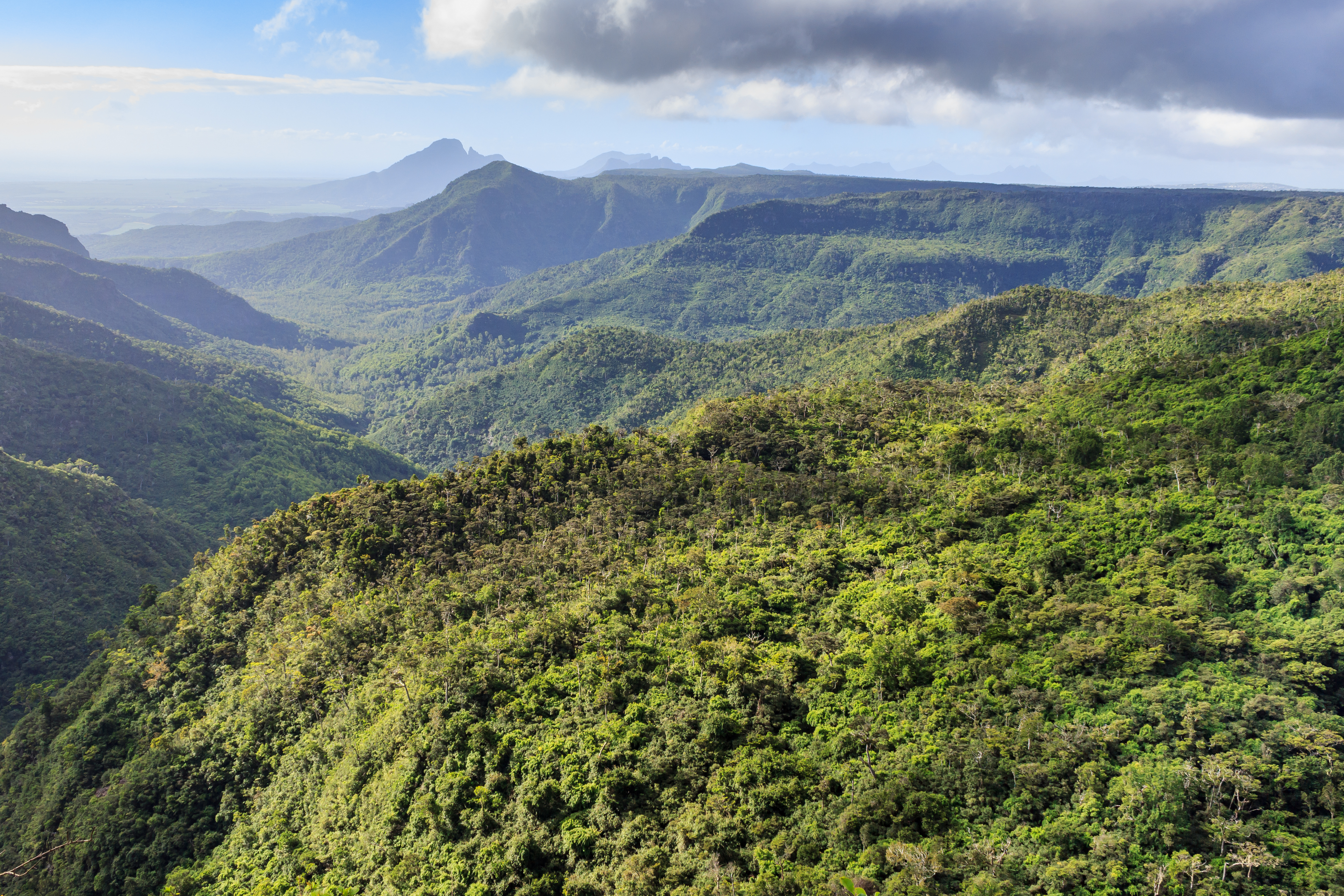 Mauritius: Black River Gorges national Park, seen from observatory